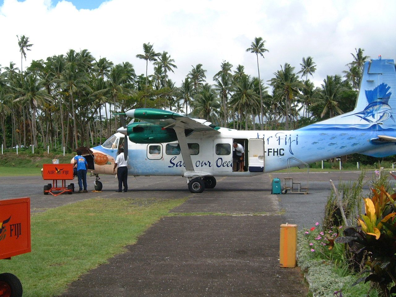 Air Fiji plane at Matei Taveuni Fiji.